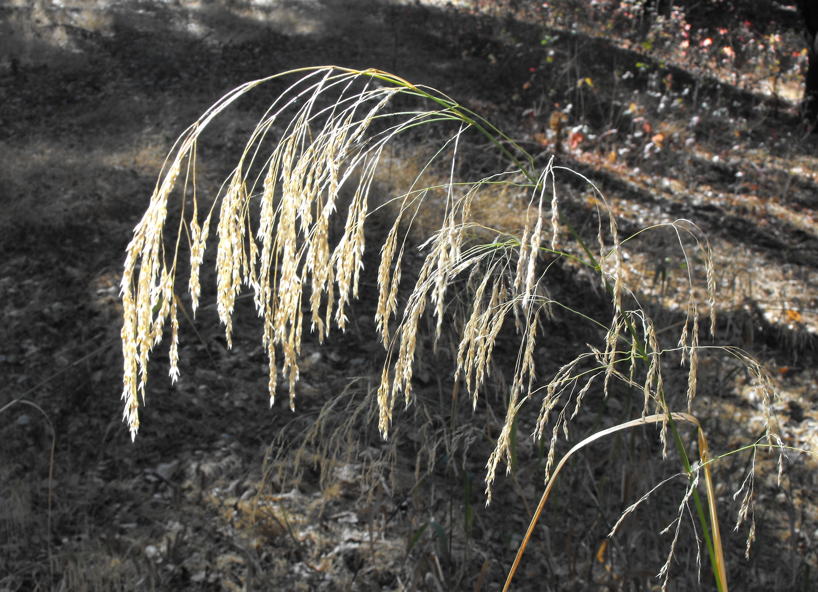 Piptatherum miliaceum at Blue Sky Ecological Reserve, Poway, California, USA.